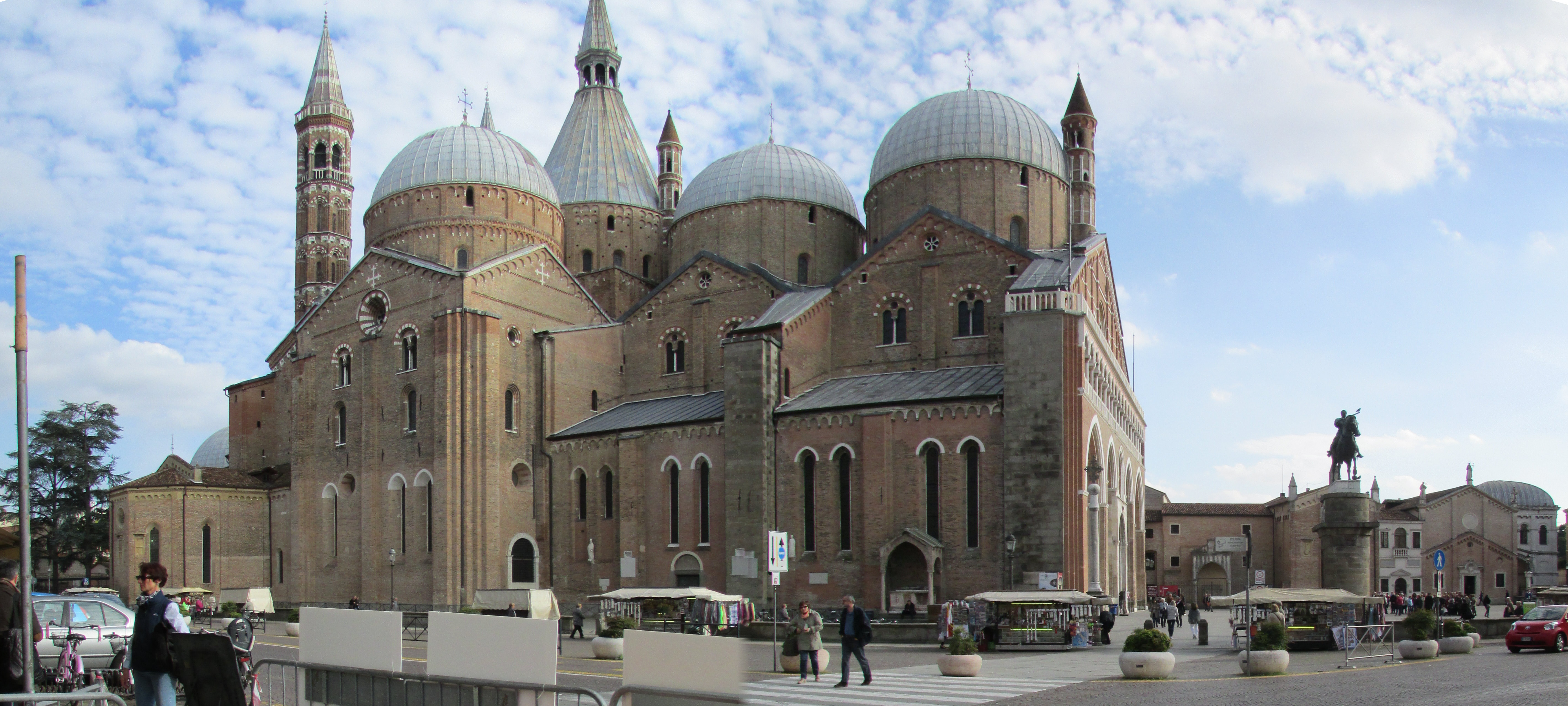 Basilica de Sant'Antonio